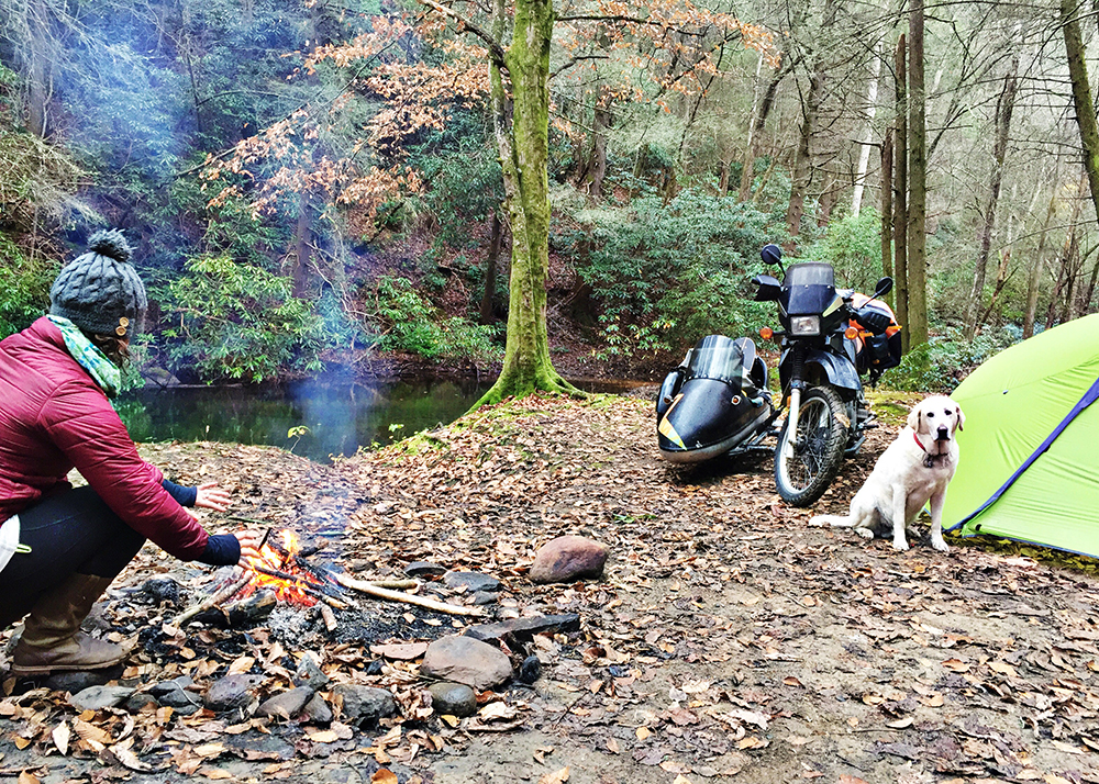 Dispersed camping is meant to be peaceful, secluded, and relaxing.